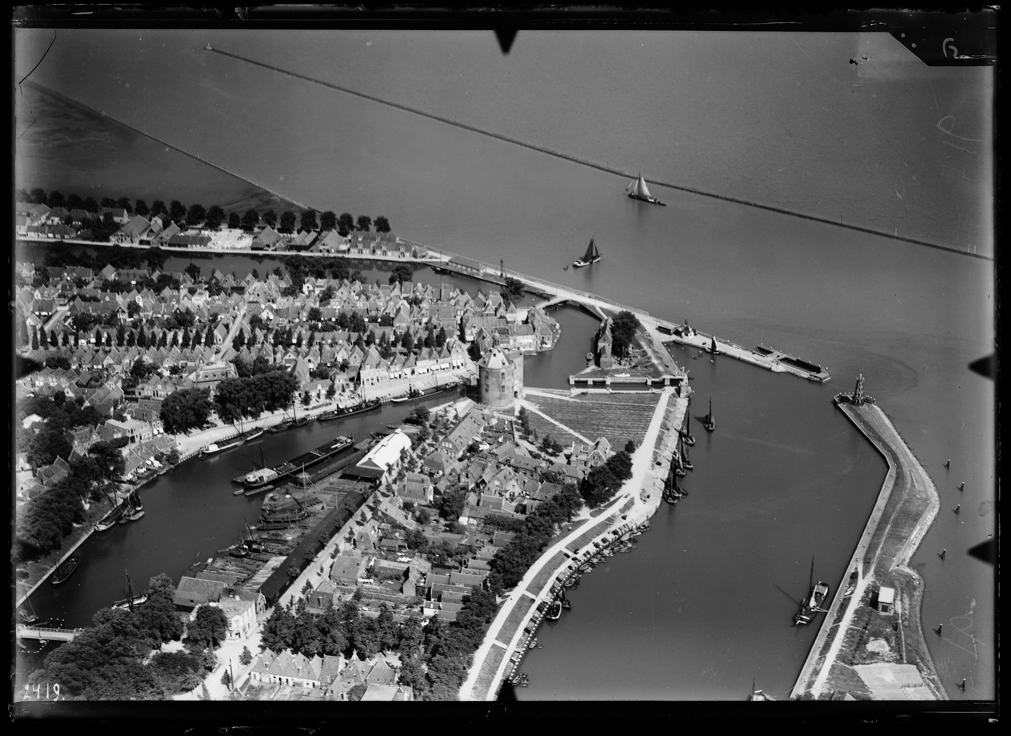 Aerial photograph of Enkhuizen, The Netherlands